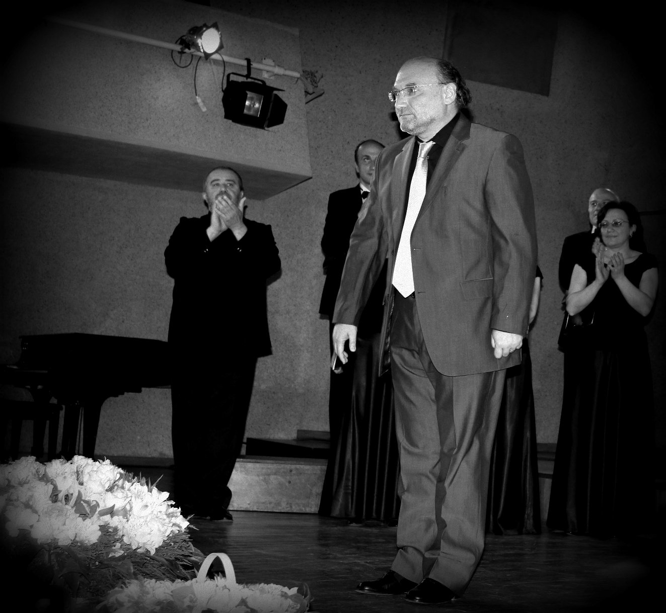 Давид Аладжян. Май 2012, Ереван